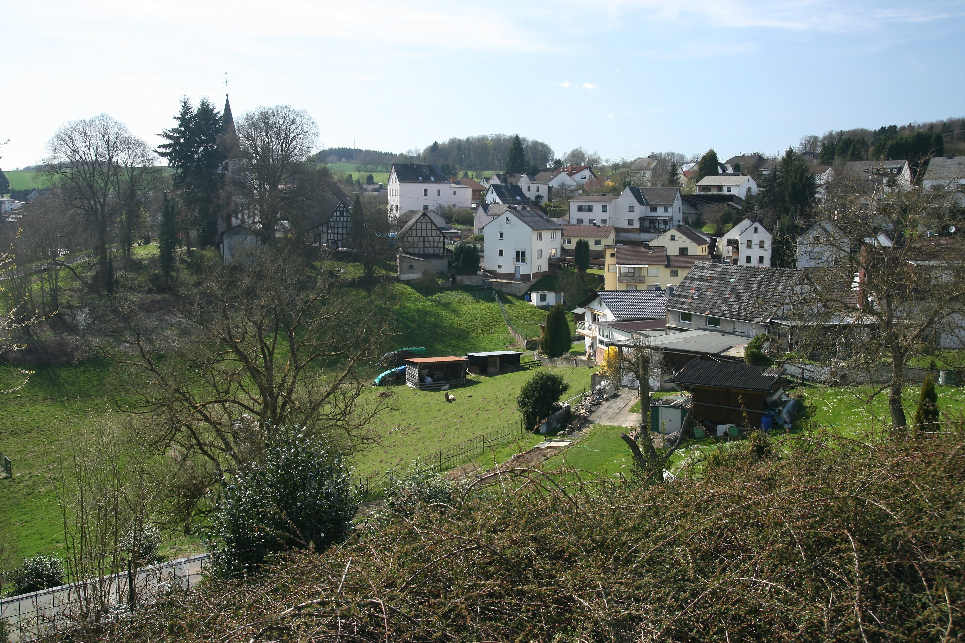 View over Alsbach, Westerwald, Germany. Taken from Hauptstraße road at the north-eastern edge of the village